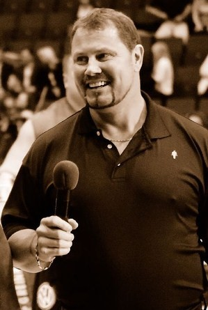 Magnus Ver Magnusson - a strength athlete from Iceland